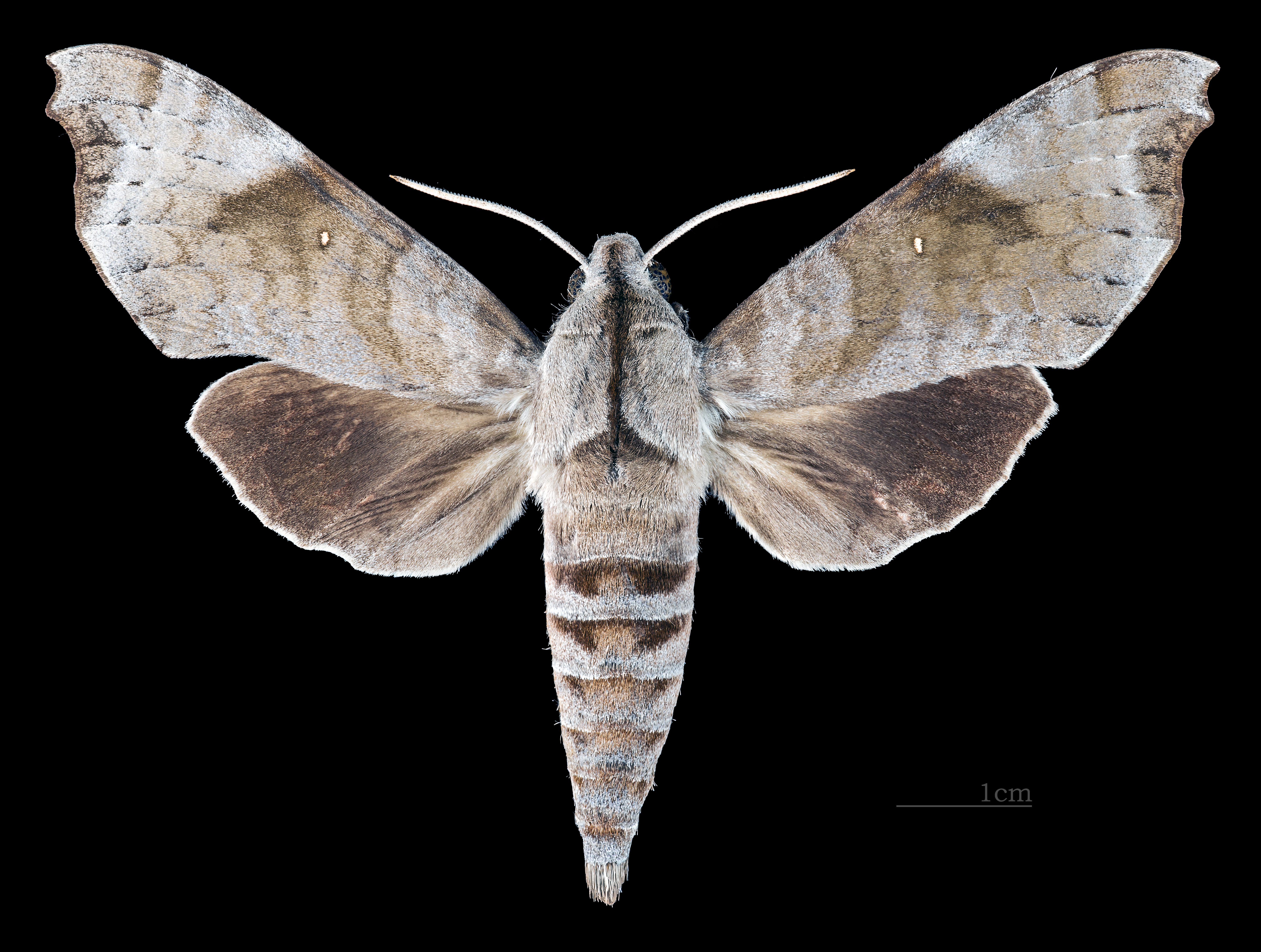 Acosmeryx miskini - Dorsal side Collection of the Mathematician Laurent Schwartz